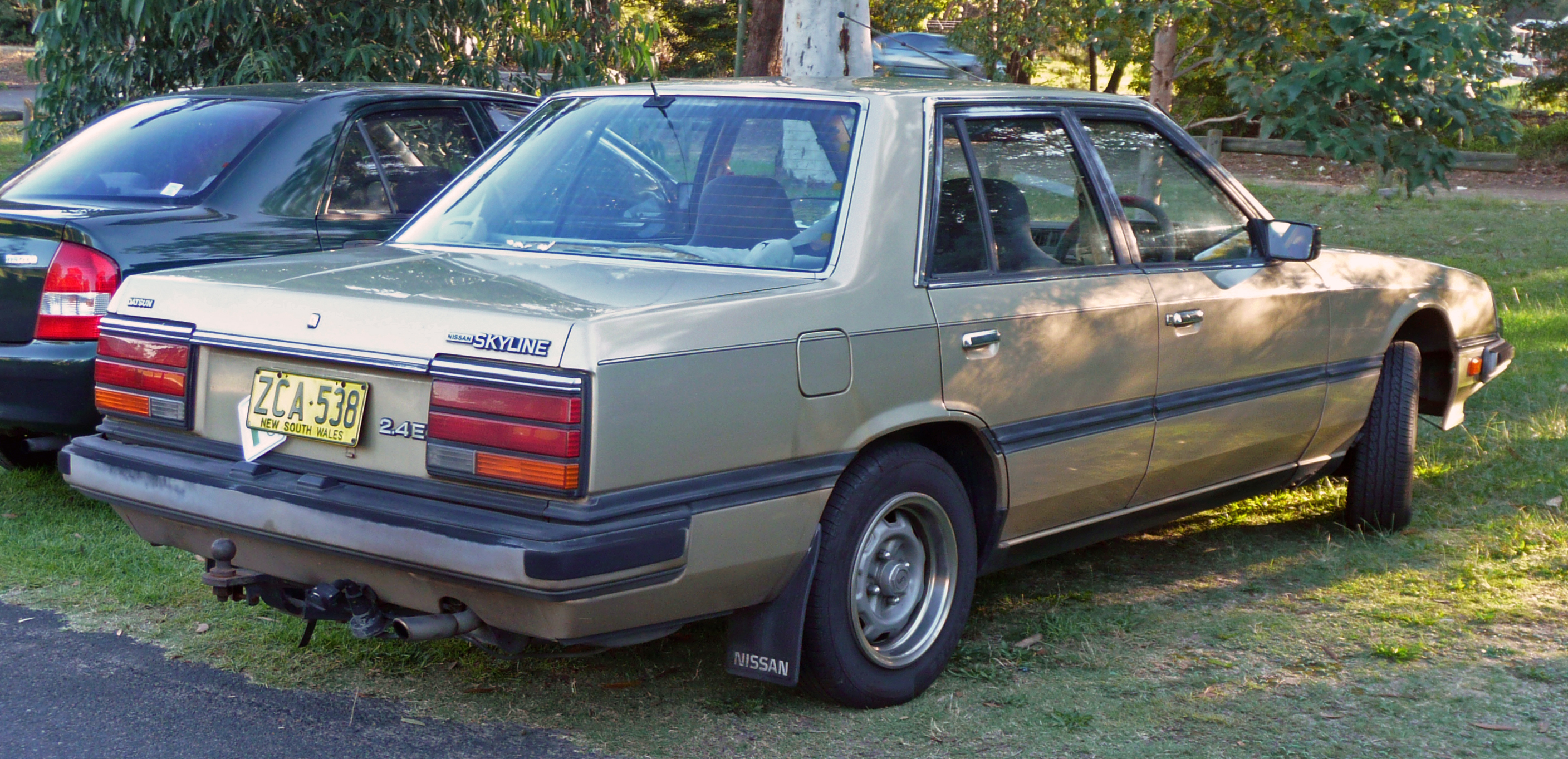 1983 Nissan Skyline (R30) 2.4E sedan. Photographed in Sutherland, New South Wales, Australia.